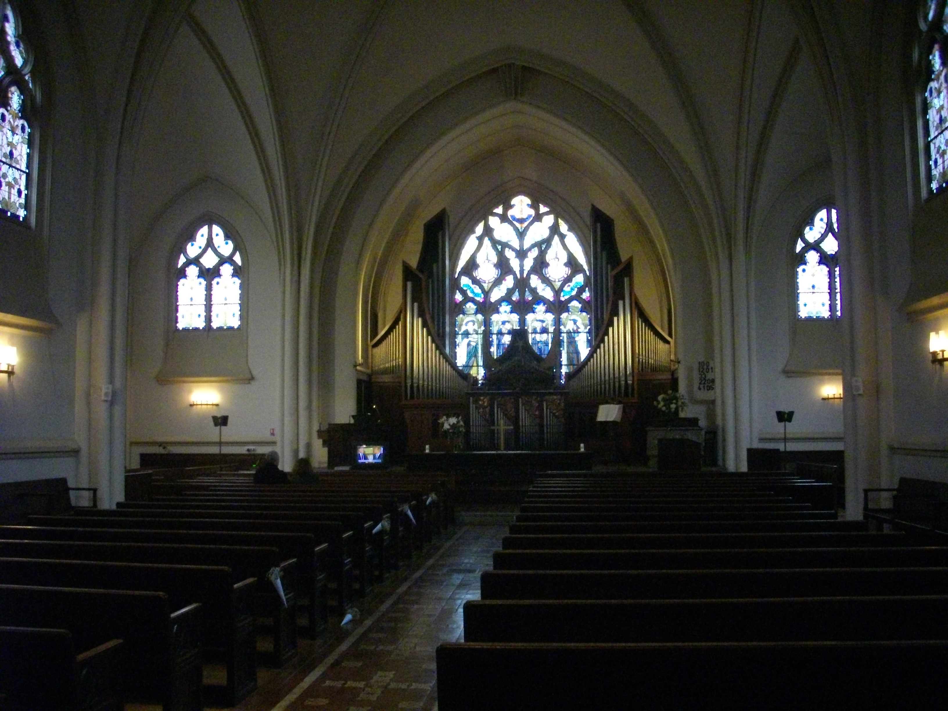 Protestant church of Reims (Marne, France). Interior